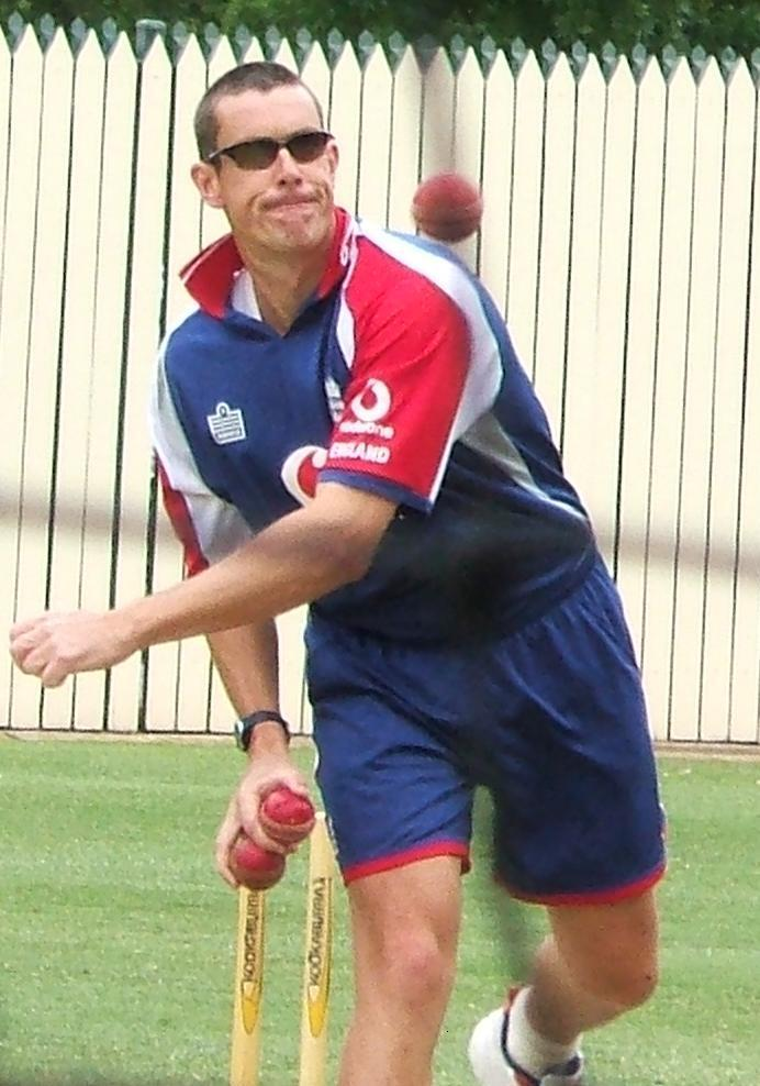 Ashley Giles bowling in the nets at Adelaide Oval